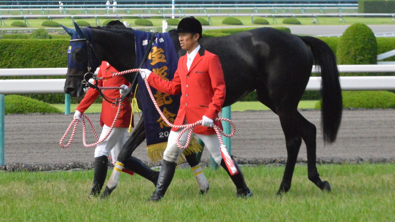 Japanese race horse Marialite at Hanshin racecourse.